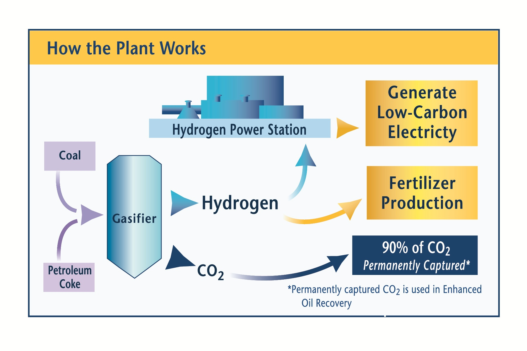 Graphic depicting the process of the Hydrogen Energy California Project.